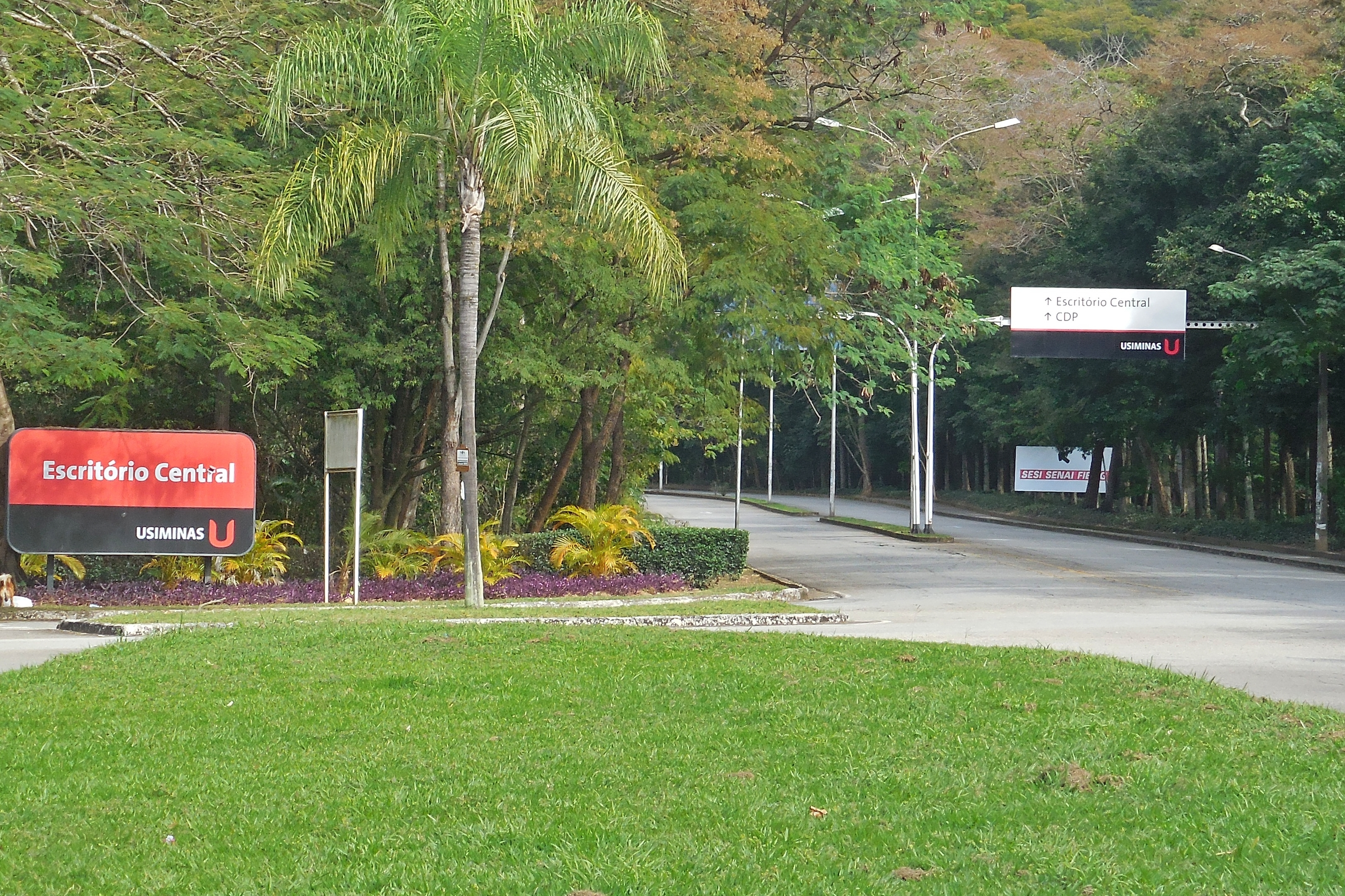 Entrance to the Usiminas' headquarter, in Ipatinga, Minas Gerais, Brazil.